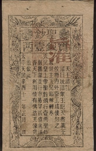 A banknote of 1 (one) teal issued by the Kingdom of Heavenly Peace.